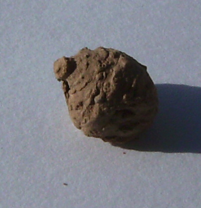 Potter wasp nest from an olive tree, Castelltallat, Catalonia